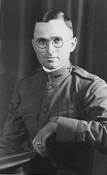 Harry S. Truman in his uniform as a First Lieutenant, Battery D 129th Field Artillery, World War I. He is seated, looking into the camera, with his left arm on a chair, holding his hat in his right hand. From: Estate of Mary Jane Truman Same as 66-2934, 62-391, 69-437, and 69-401-01, only this is a better, uncropped photograph. May be reproduced on the condition that the Harry S. Truman Library be credited. Accession number: 79-24 Subjects (HST): Truman - Soldier - Missouri National Guard Restrictions: Unrestricted Physical Size: 4.5x7 inches